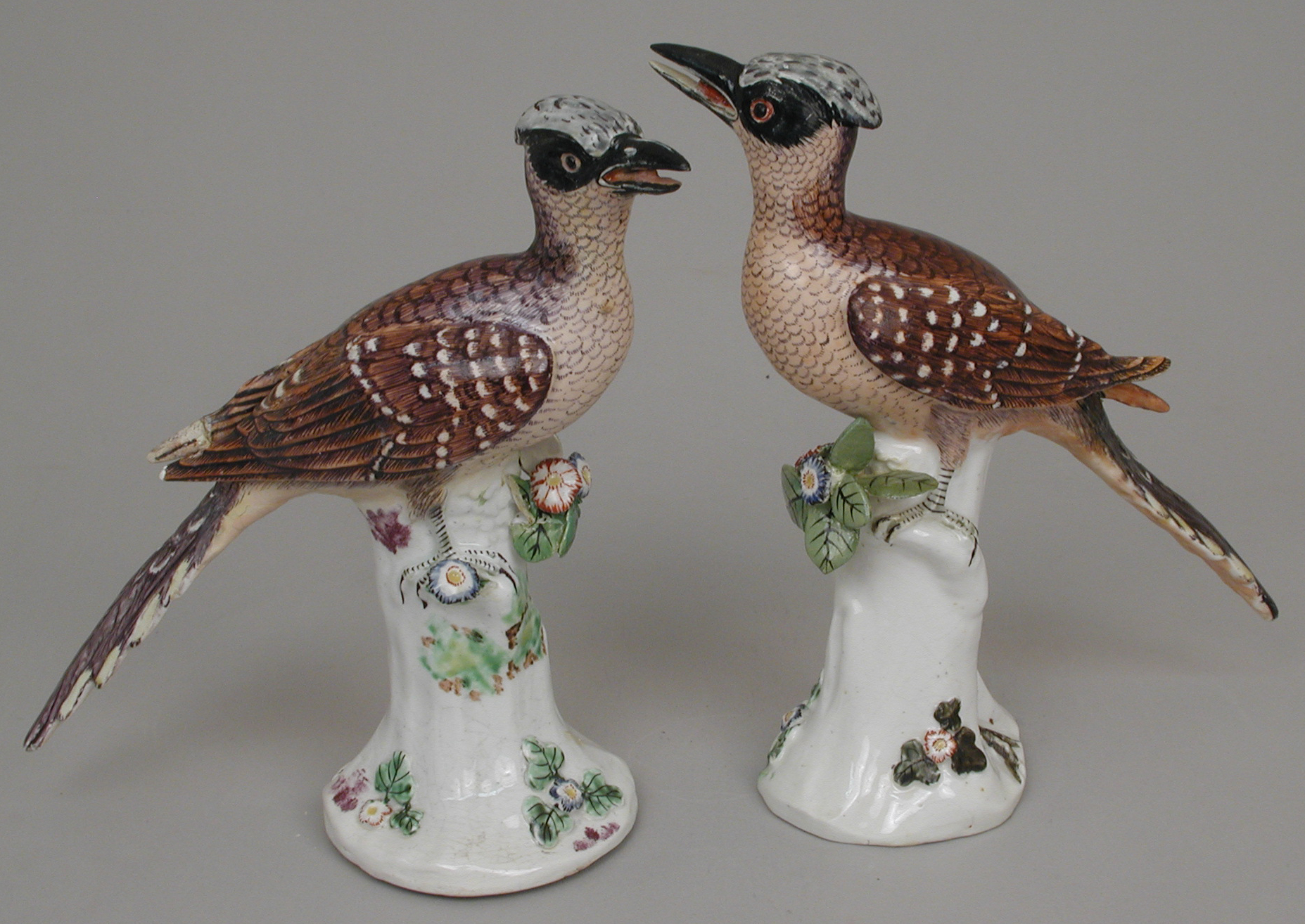 British, Chelsea; Figures; Ceramics-Porcelain